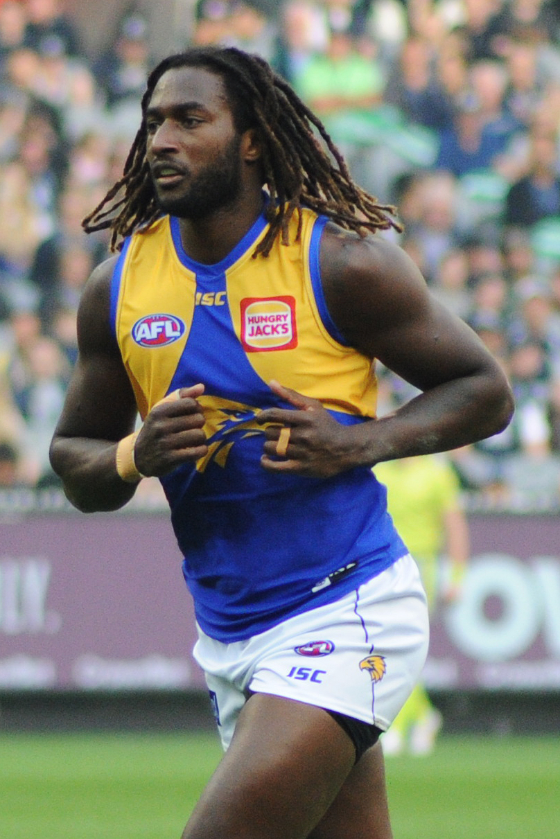 Nic Naitanui during the AFL round five match between Carlton and West Coast on 21 April 2018 at the Melbourne Cricket Ground in Melbourne, Victoria.